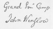 John Winslow's signature while he was in Grand-Pré.